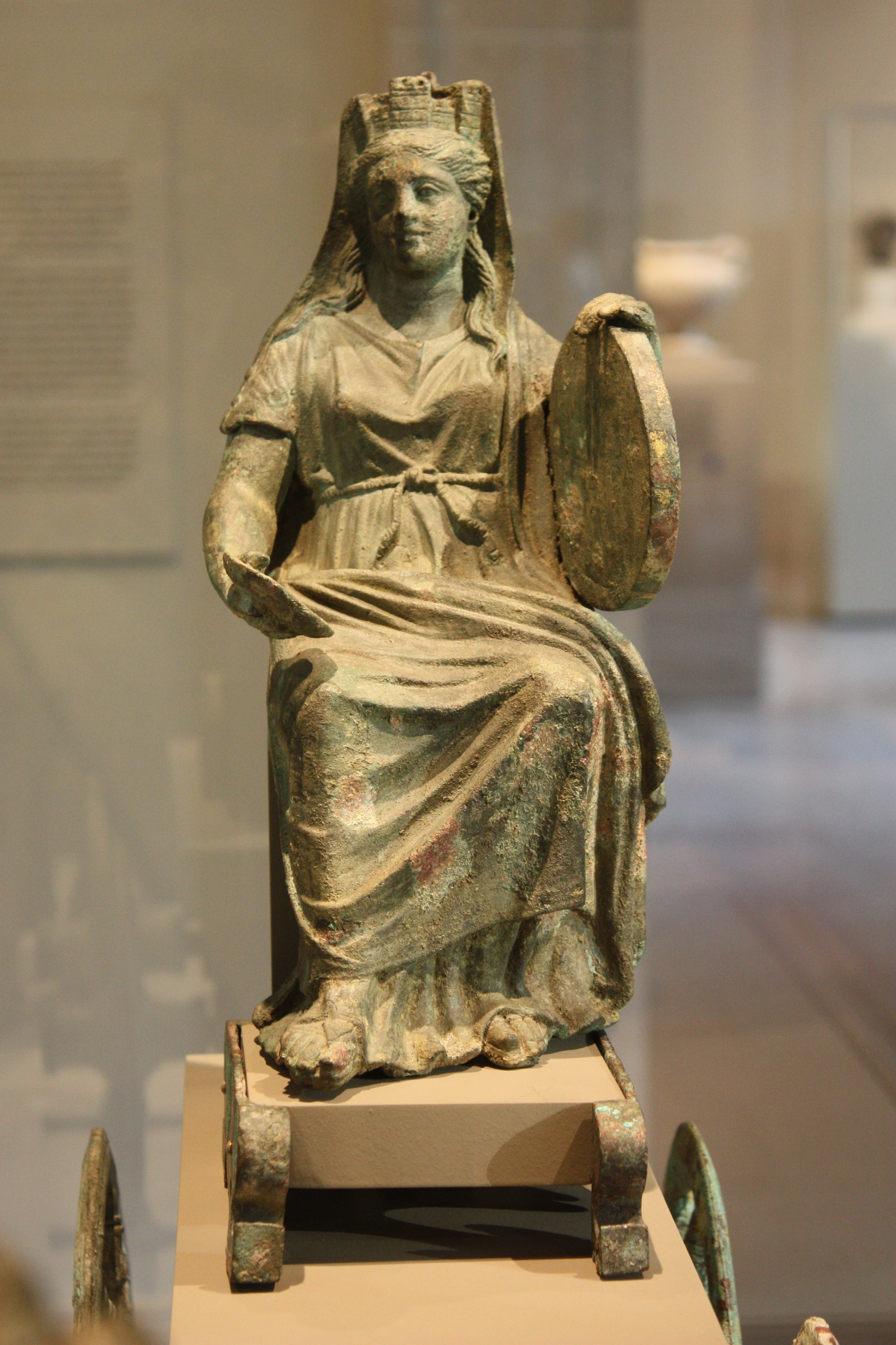 Bronze statuette of Cybele on a cart drawn by lions Roman, 2nd half of 2nd century A.D. The cult of the Anatolian mother goddess Cybele was introduced into Rome during the Second Punic War in the late third century B.C. and remained popular until early Christian times. The goddess is shown with her usual attributes, a patera (libation bowl) in her right hand and a large tympanum (drum) in her left. But instead of flanking her throne as they normally do, here the two oversized lions pull a chariot. This elaborate group comes from a fountain, in which spouts projected from the open mouths of the lions.